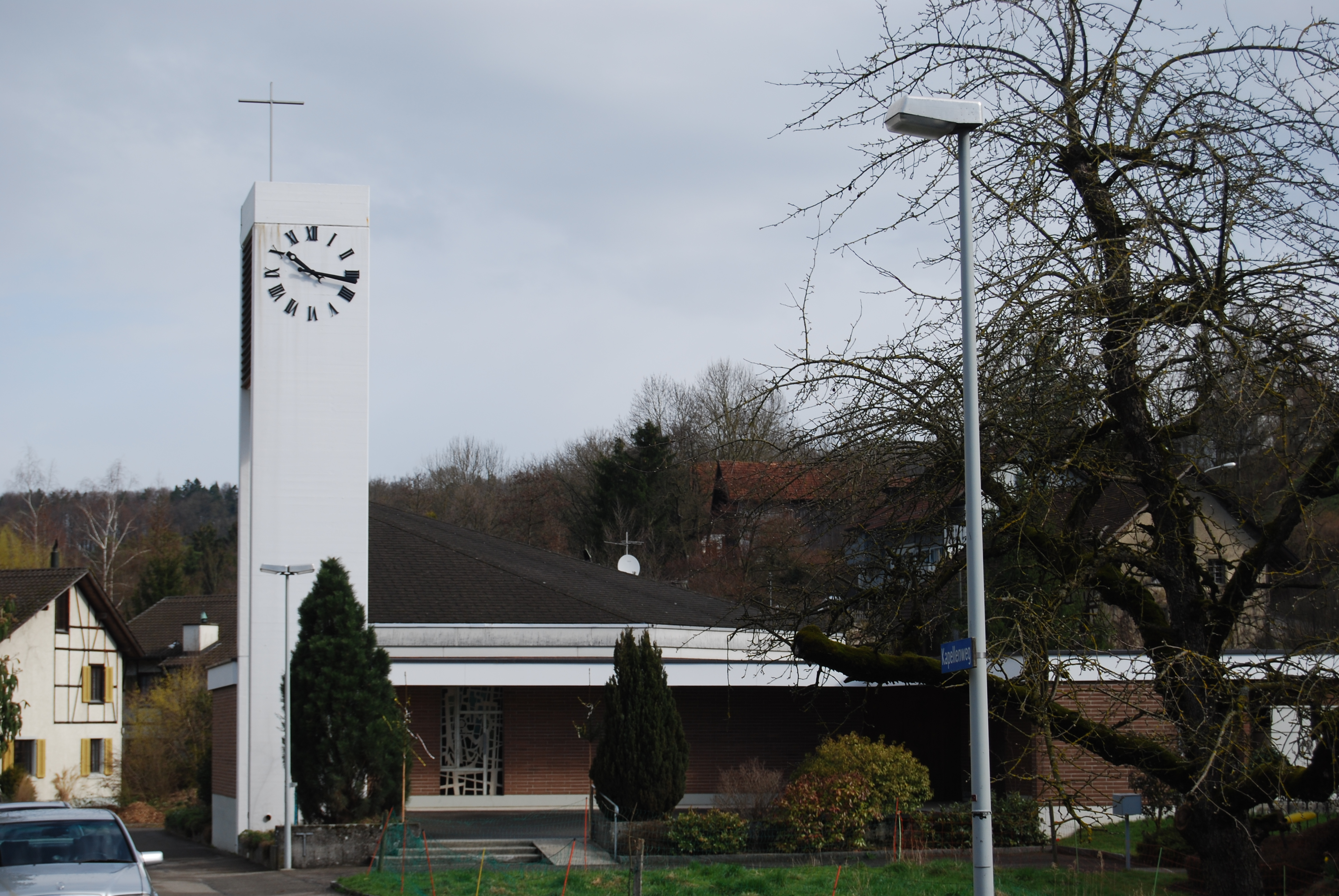 Church of Siglistorf, canton of Aargau, SwitzerlandEsperanto: Preĝejo de Siglistorf, Kantono Argovio, Svislando